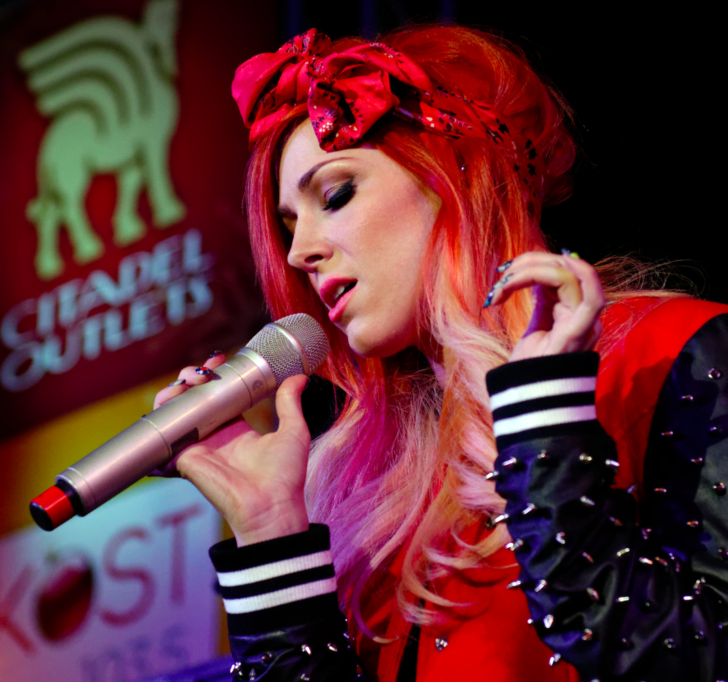 Bonnie McKee performing live at The Citadel Outlets' 12th Annual Tree Lighting Concert in Commerce CA on November 9th, 2013.